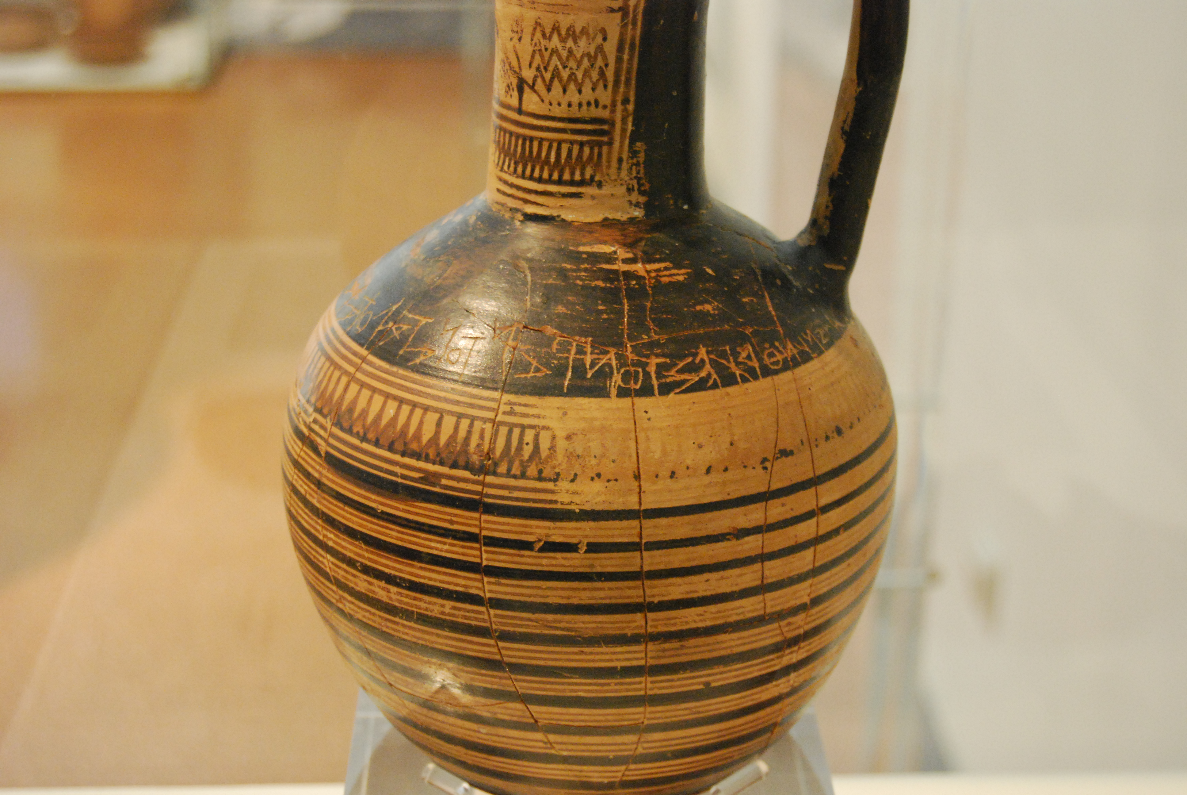 One of the four oldest known samples of the use of the Greek alphabet. It has been dated to ca. 740 BCE. ...(h)ος νῦν ὀρχεστôν πάντον ἀταλό(τατα)...